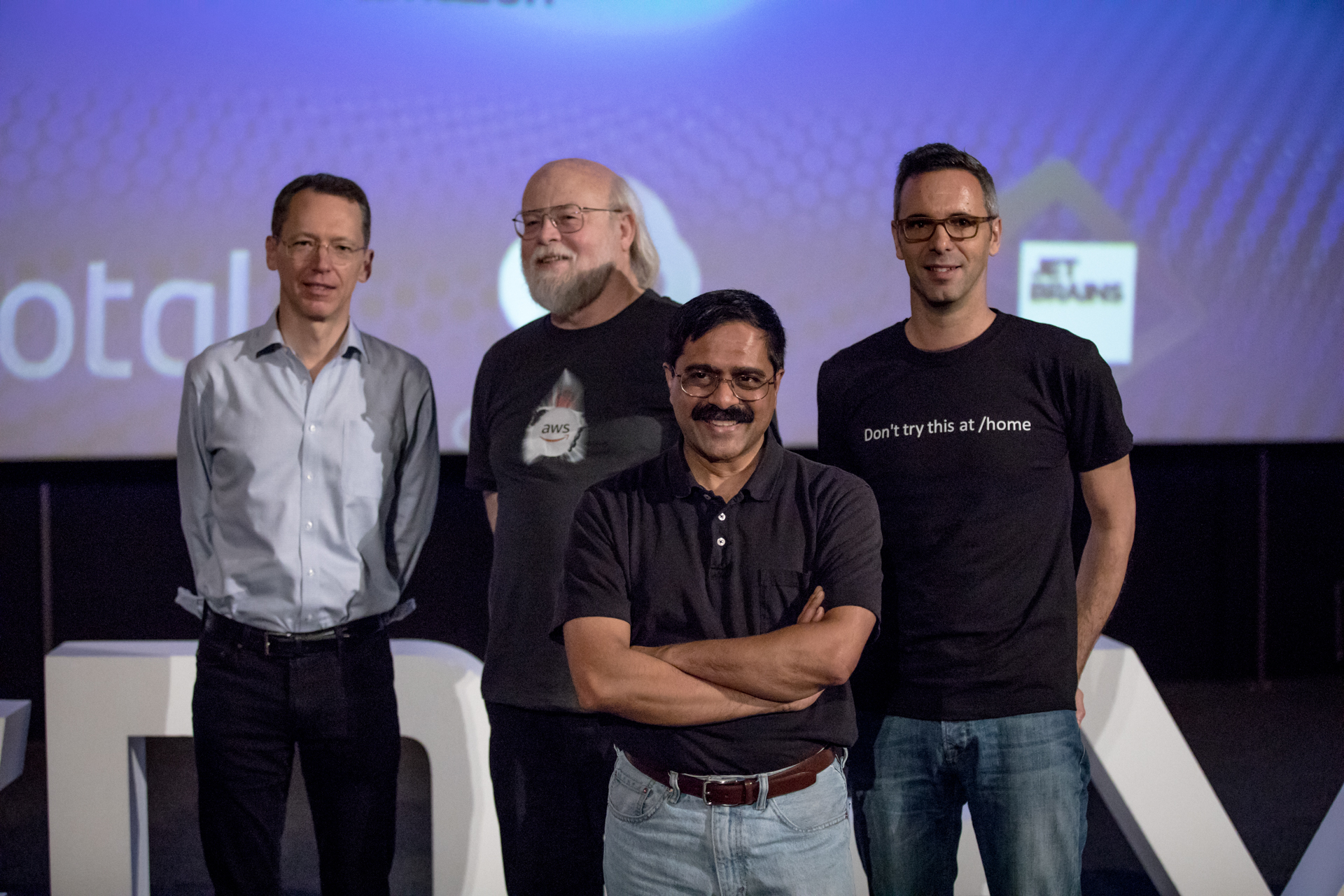 Picture taken after the opening keynote of Devoxx Belgium with the different keynote speakers: James Gosling, Mark Reinhold, Venkat Subramaniam and Stephan Janssen.